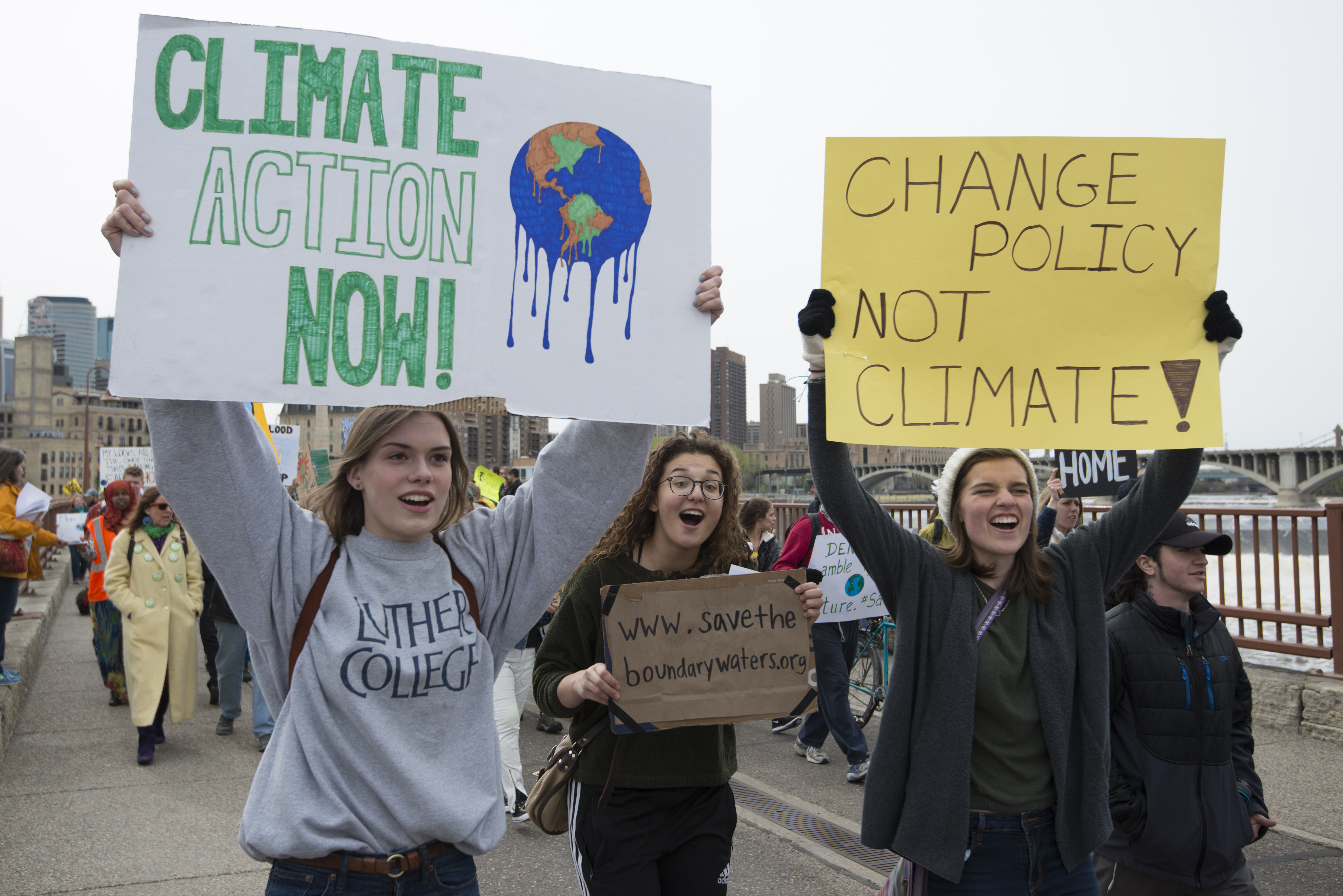 Minneapolis, Minnesota, 15 April 2017. Around 2500 people met at the Minnesota capitol grounds to call on Republican President Donald Trump to release his returns, divest his holdings and disclose his conflicts of interest.